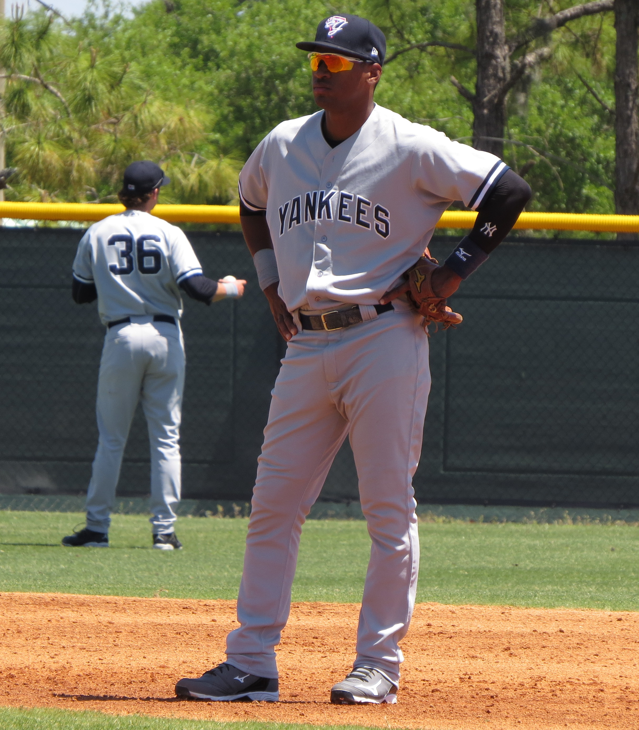 Avelino on the basepath